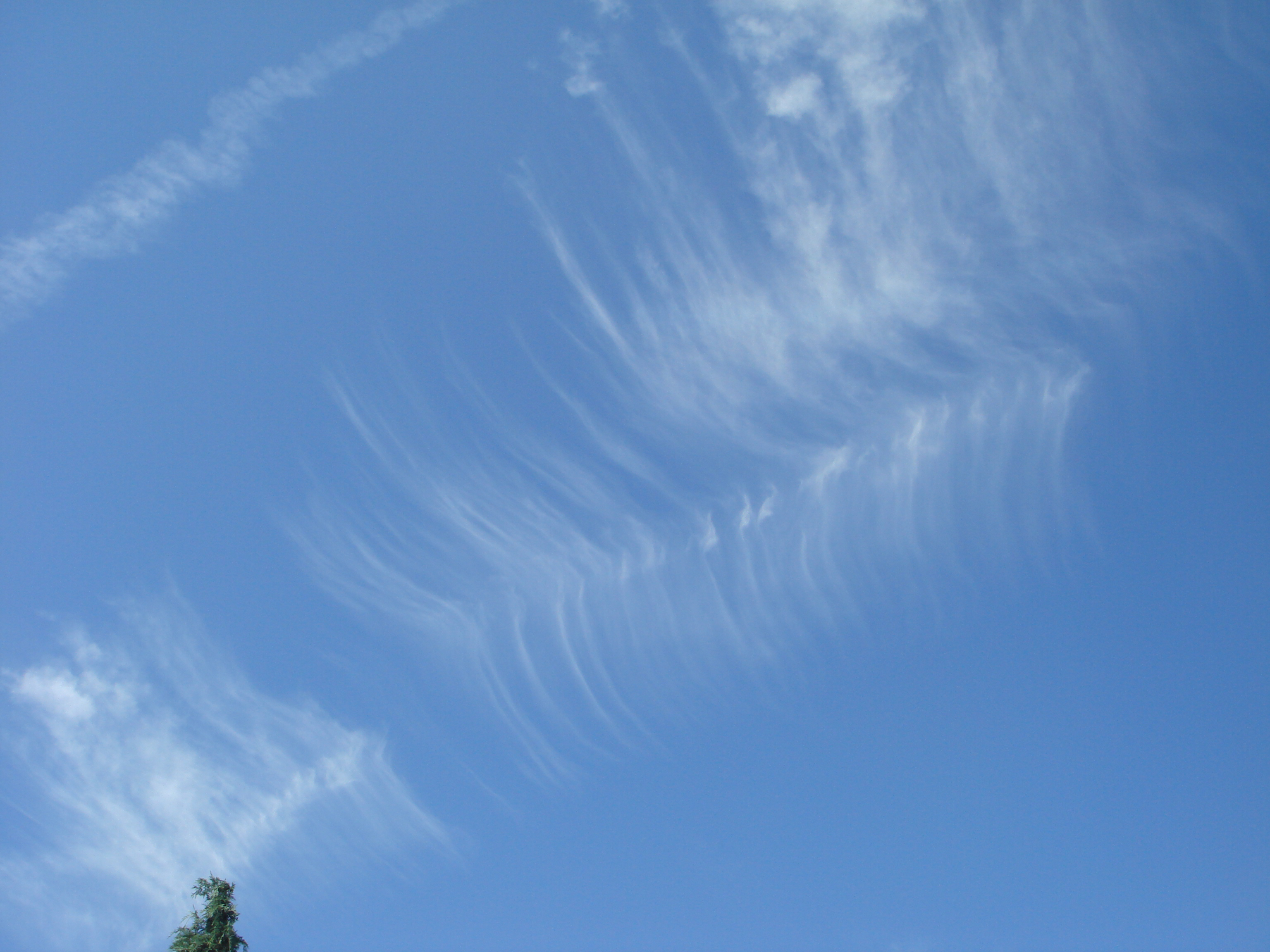 Cirrus vertebratus cloud